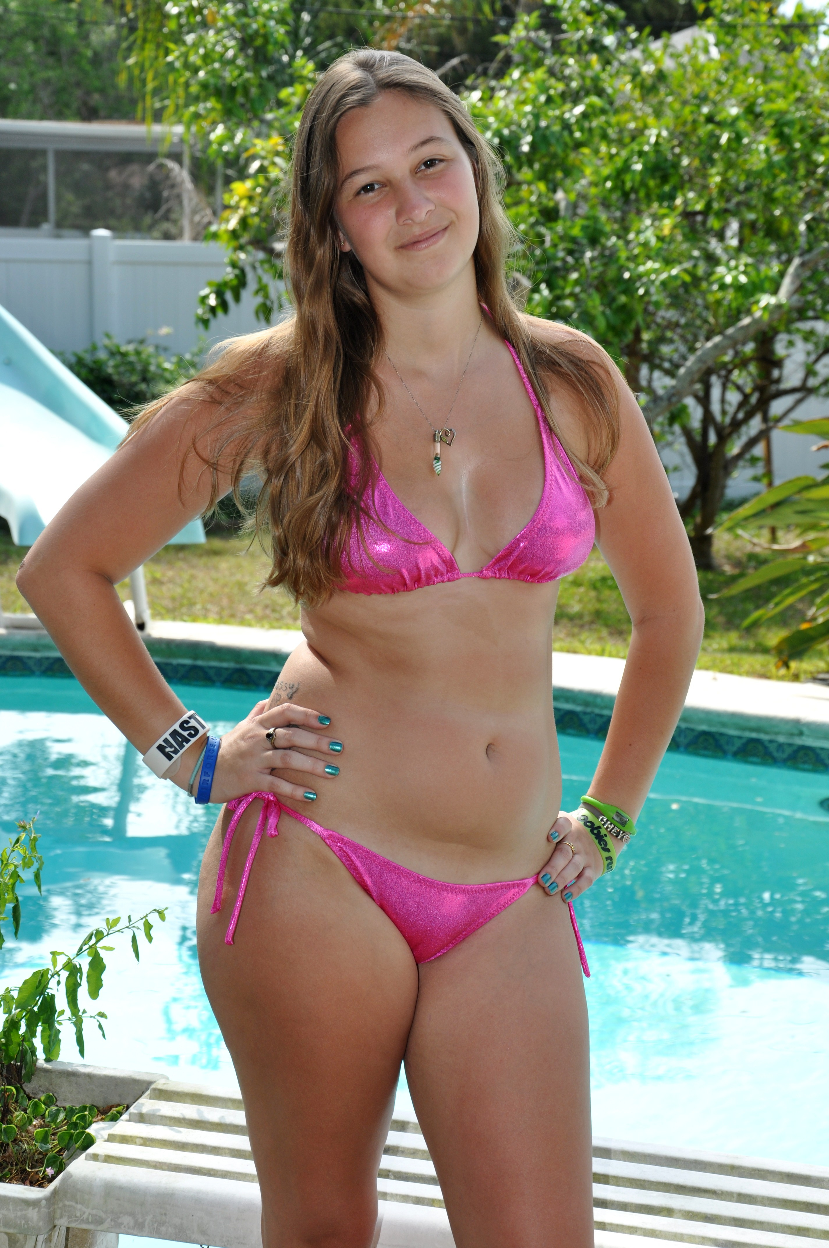 Young woman with a pink bikini at a pool